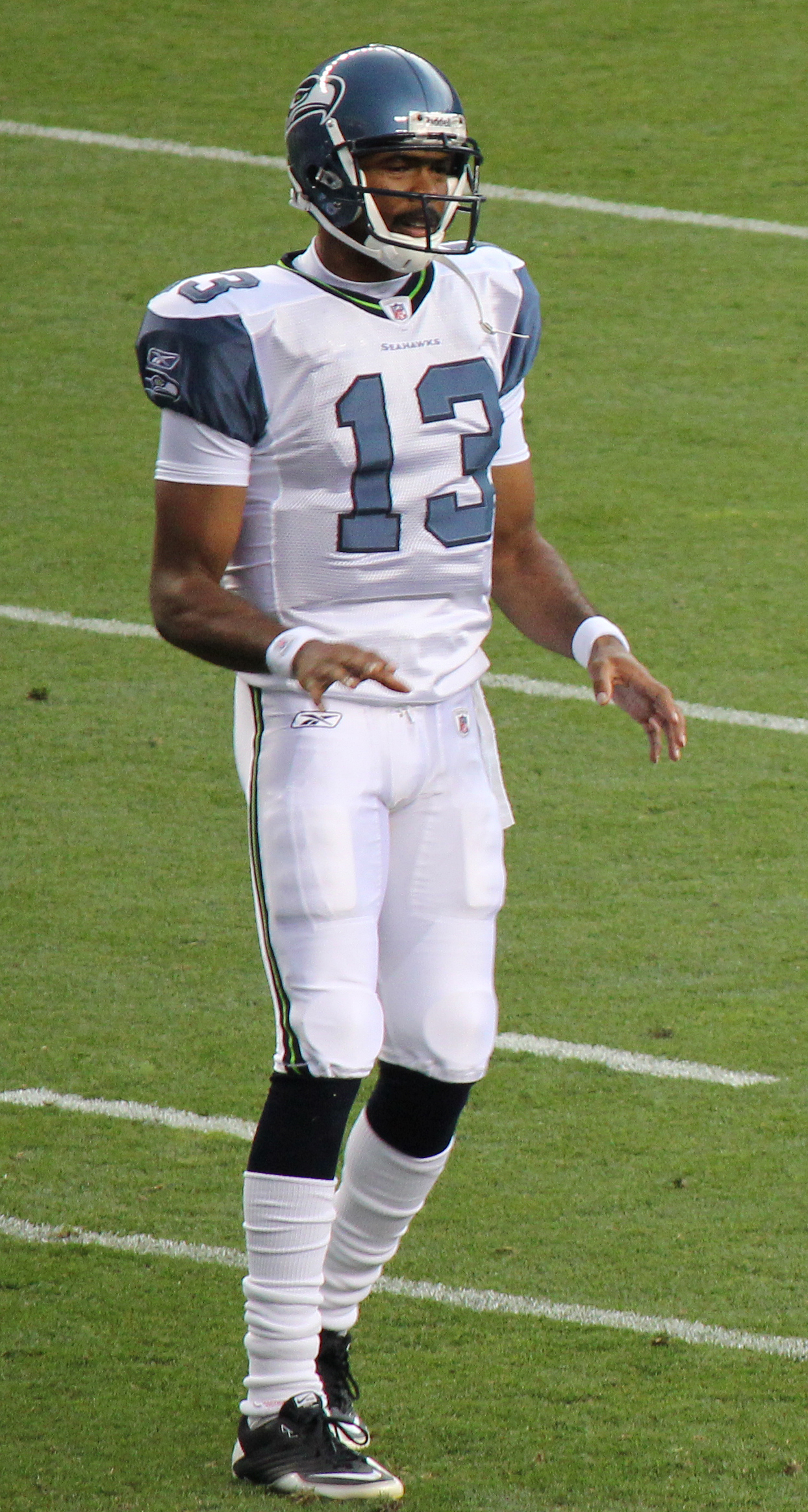 Josh Portis, a player on the National Football League.